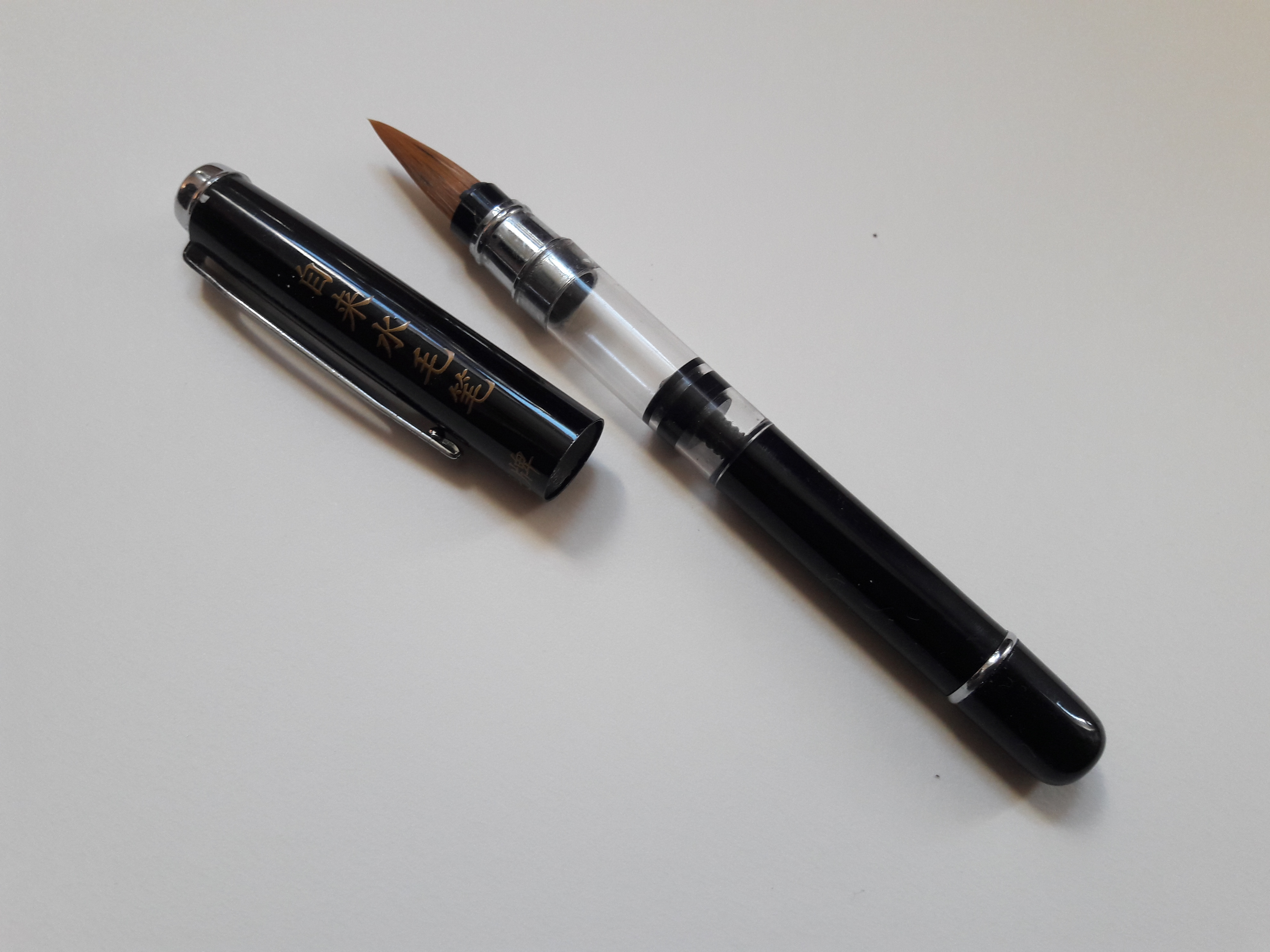 refillable brush-pen (自来水毛笔), with natural hairs and using endless vis to suck ink